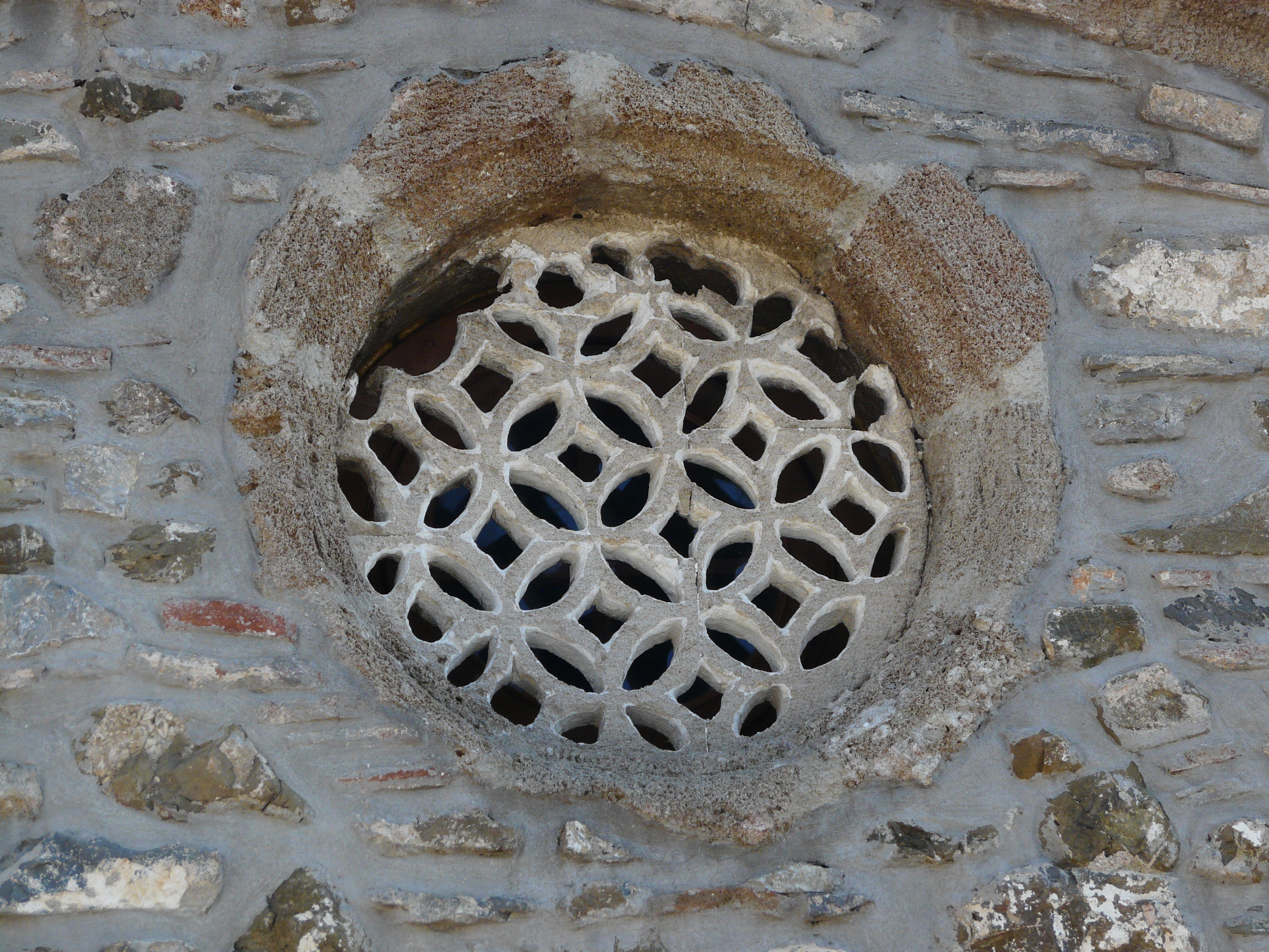 Asklipio (Rhodes). Church of the Dormition